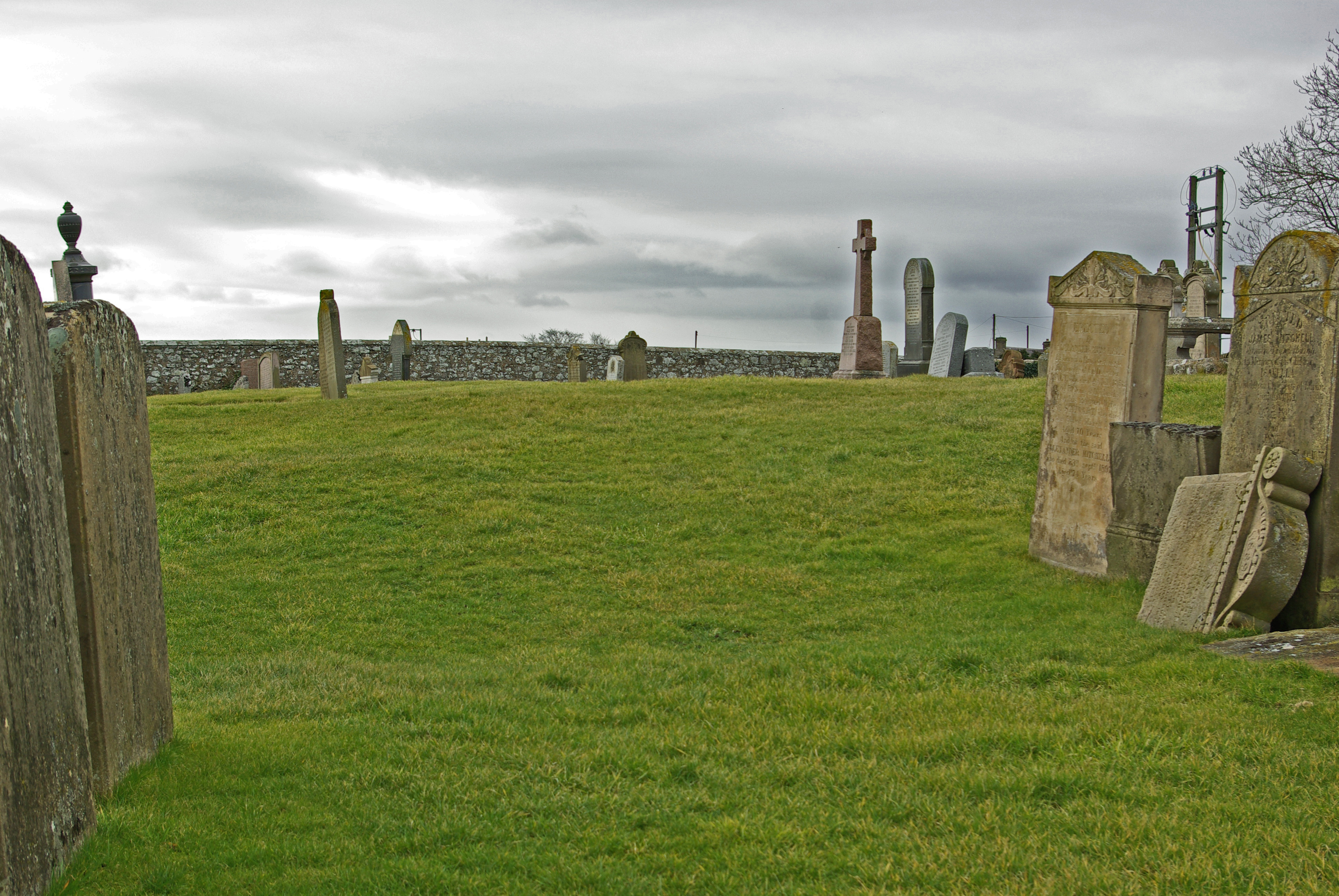 Location of the Cathedral of Moray at Kineddar, Lossiemouth. The position is on top of a mound which is probably the rubble of the former ruin